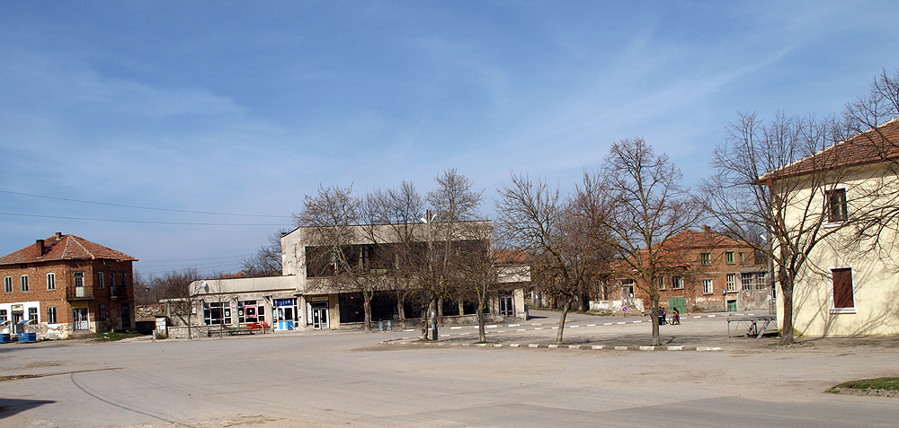 Central square of village Lesovo, Bulgaria